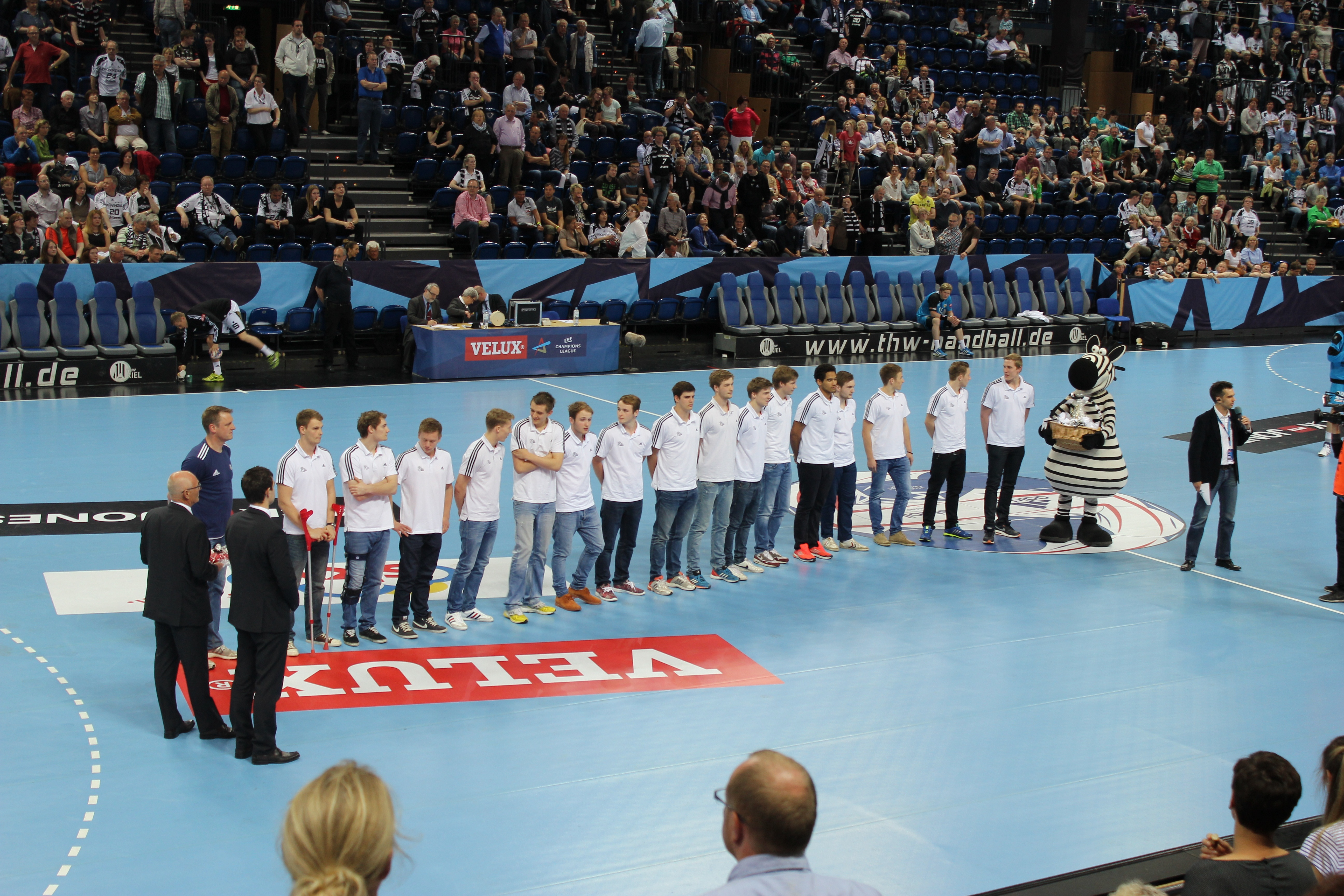 The youth team of the german handball club THW Kiel in 2014.